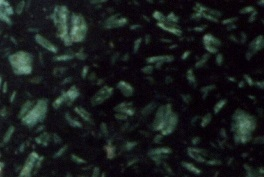 Lapis Lacedaemonius, a green volcanic rock found in a single source in Greece. Cropped from original image showing Opus sectile (marble floor inlay) from Hadrian's Villa near Tivoli in Italy.